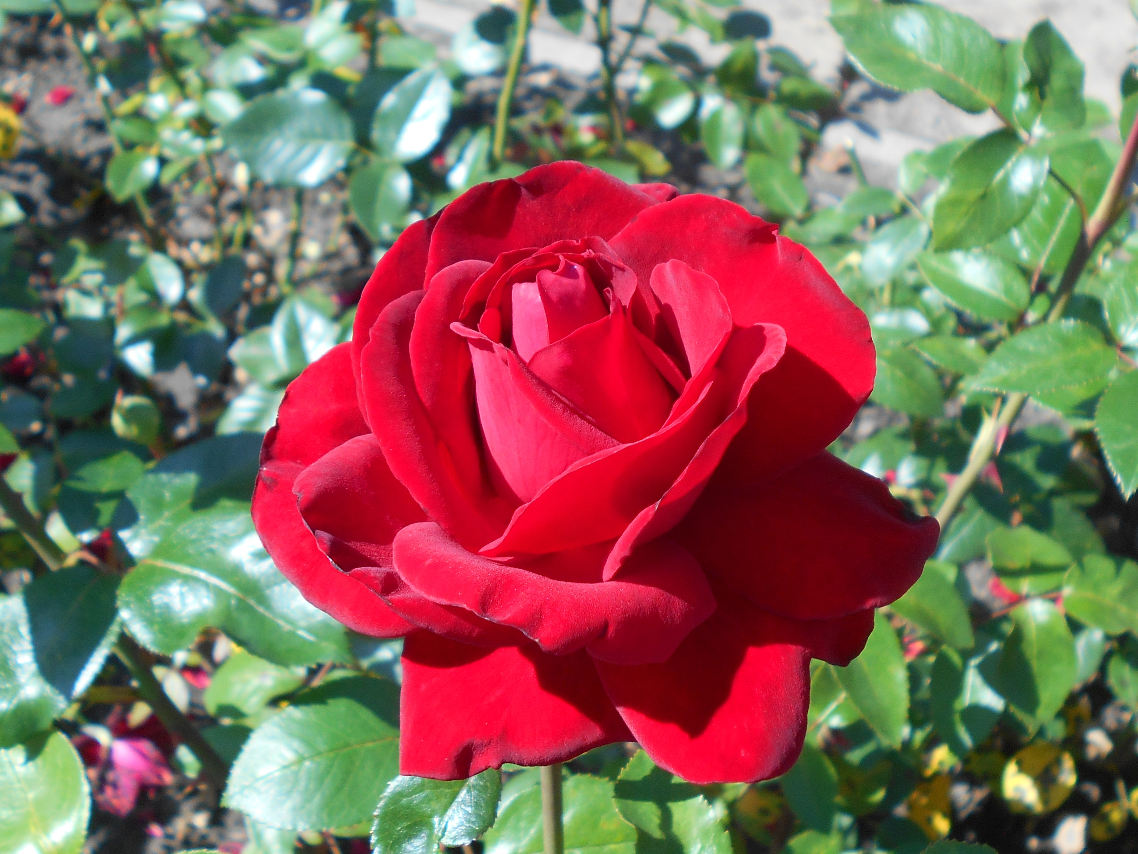 Rosa ‘Ingrid Bergman’, rose garden in Szczecin, West Pomeranian Voivodeship, Poland.